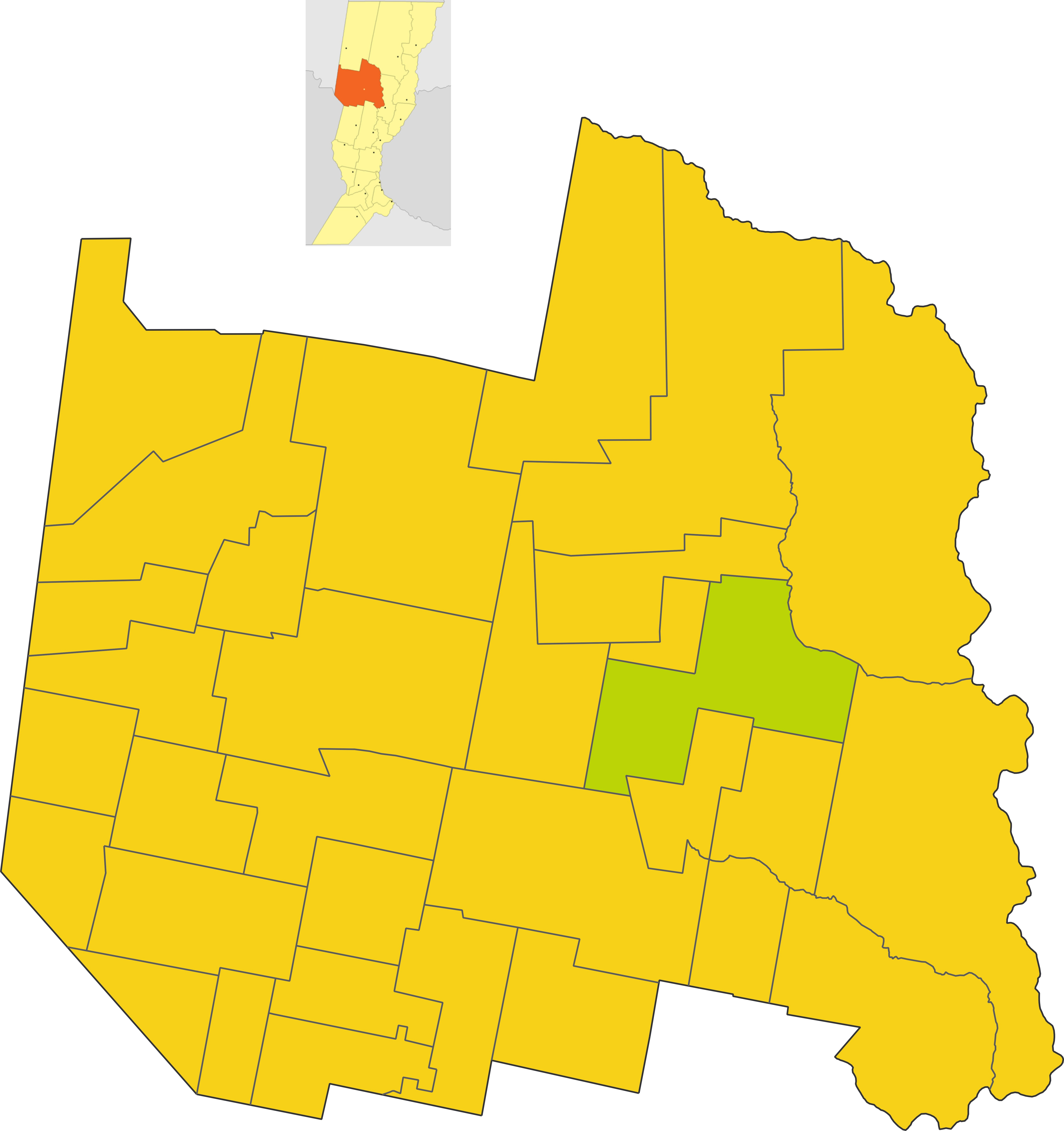 Map of the municipio de San Cristobal in San Cristobal department, Santa Fe province, Argentina